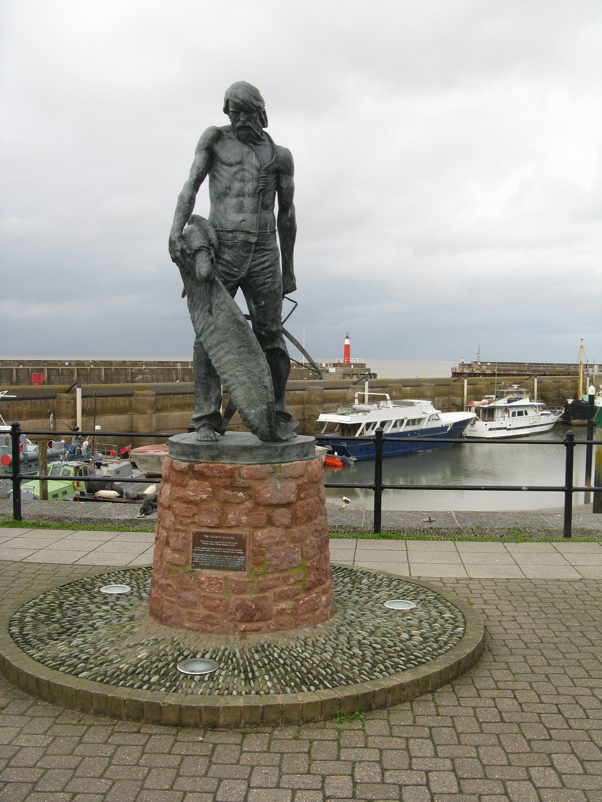 The Ancient Mariner